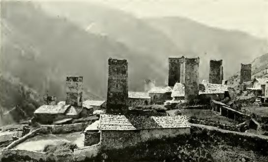 Adishi, Georgia. Photographed by the Hungarian explorer Moriz von Déchy (1851-1917)